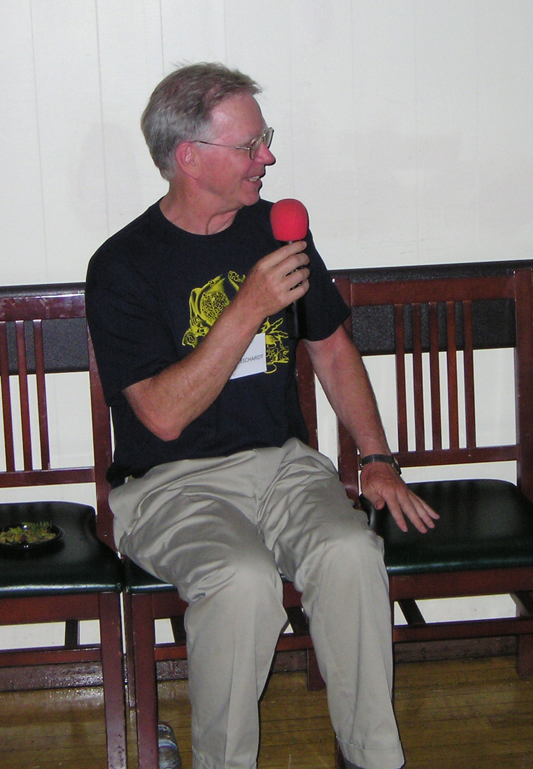 Louis Reichardt at the 2005 neuroscience graduate program retreat in Asilomar. I think he was judging a karaoke contest.